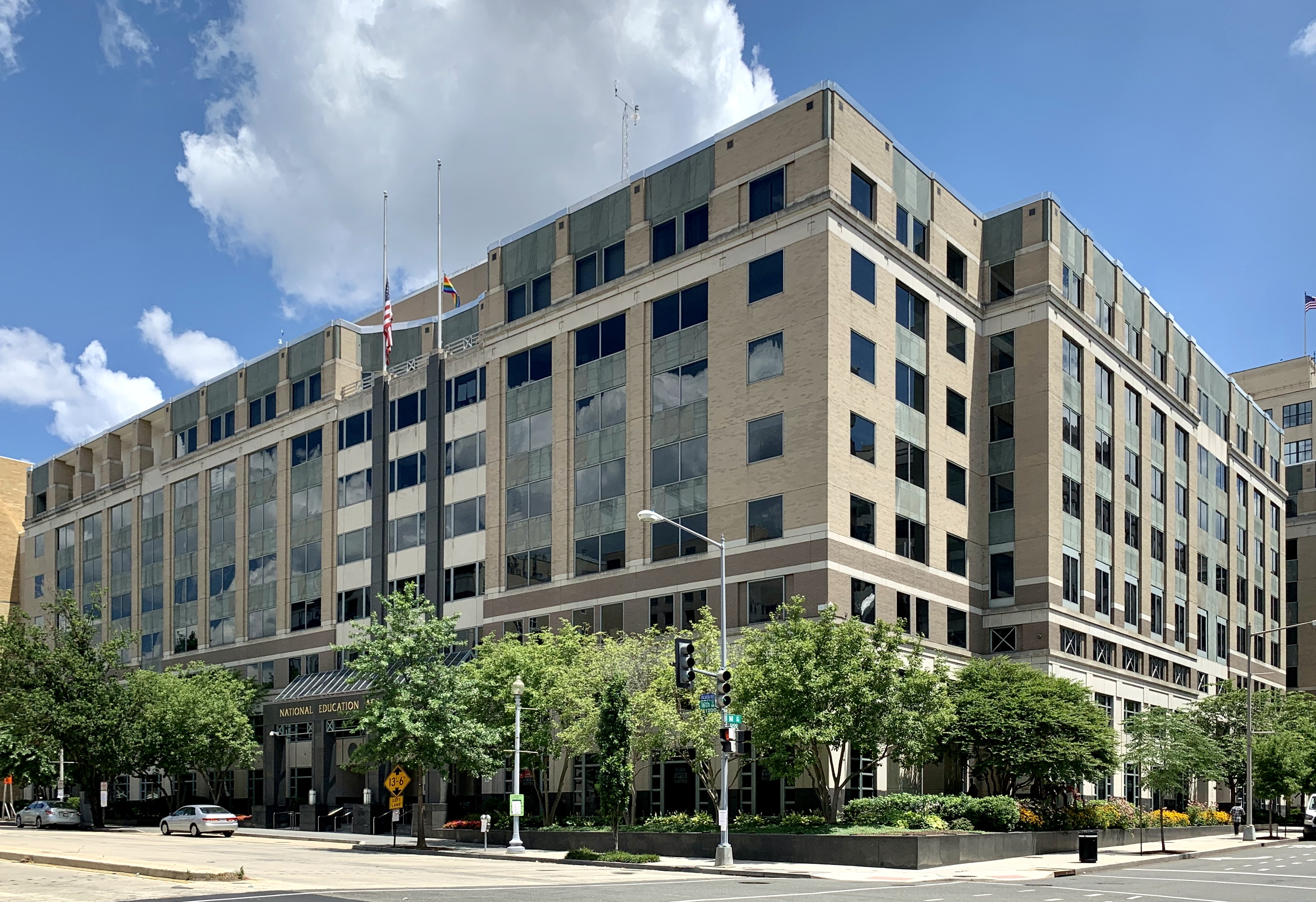 The National Education Association headquarters is located at 1201 16th Street NW in Washington, D.C. The modernist office building was constructed in 1963.